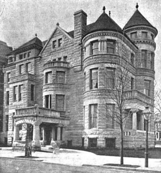 Illustration of Lieut. Richardson Clover's Washington DC home. Address is not specified.